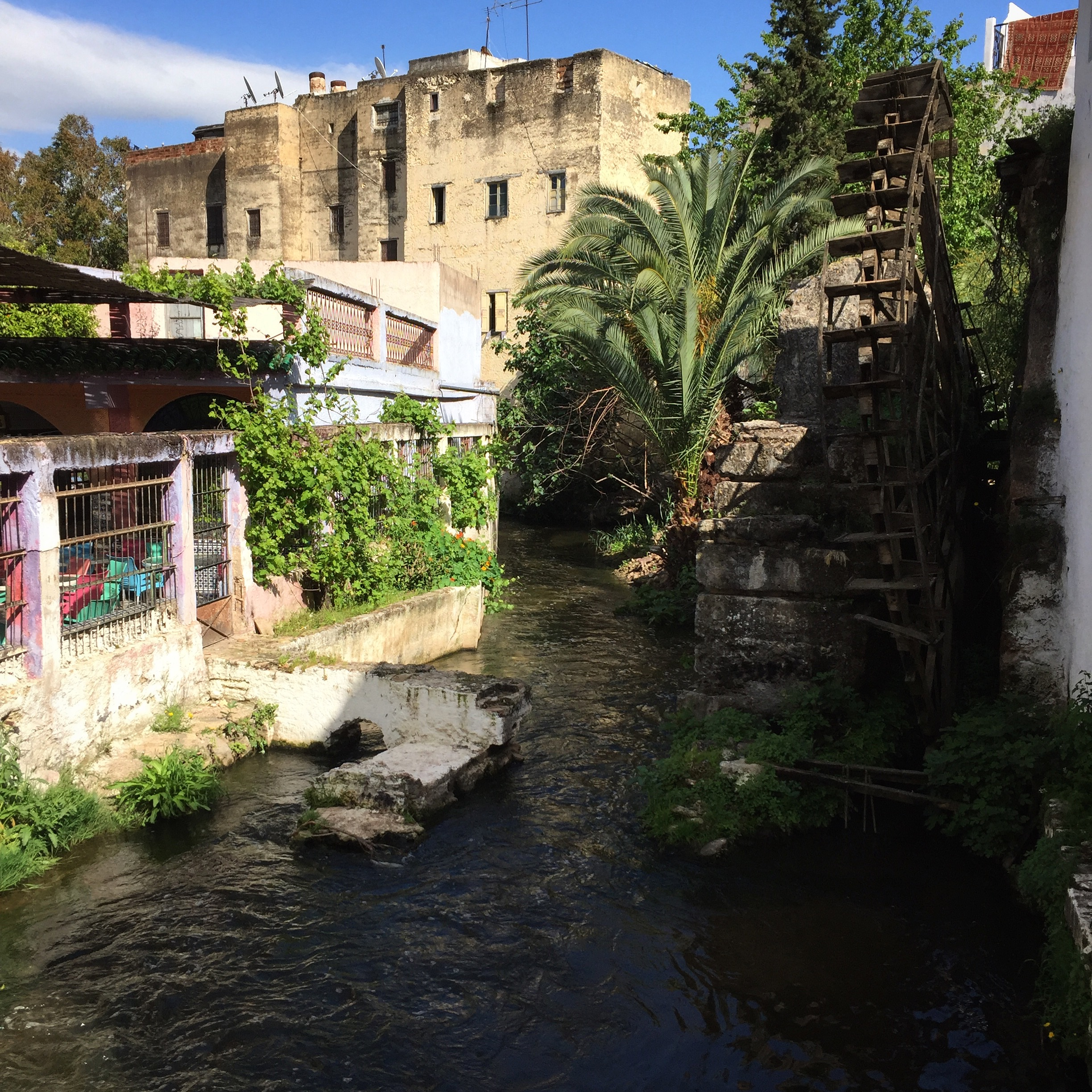 A noria in Jnan Sbil Garden in Fes, Morocco